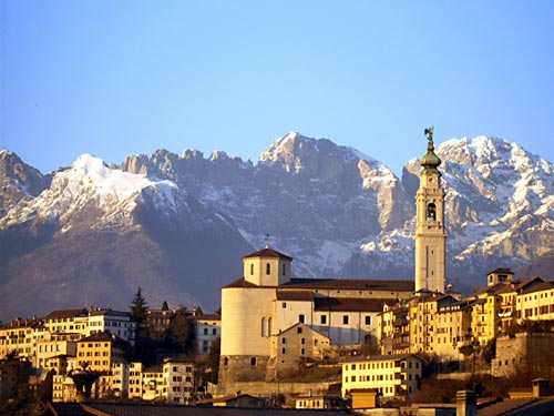 see same name file